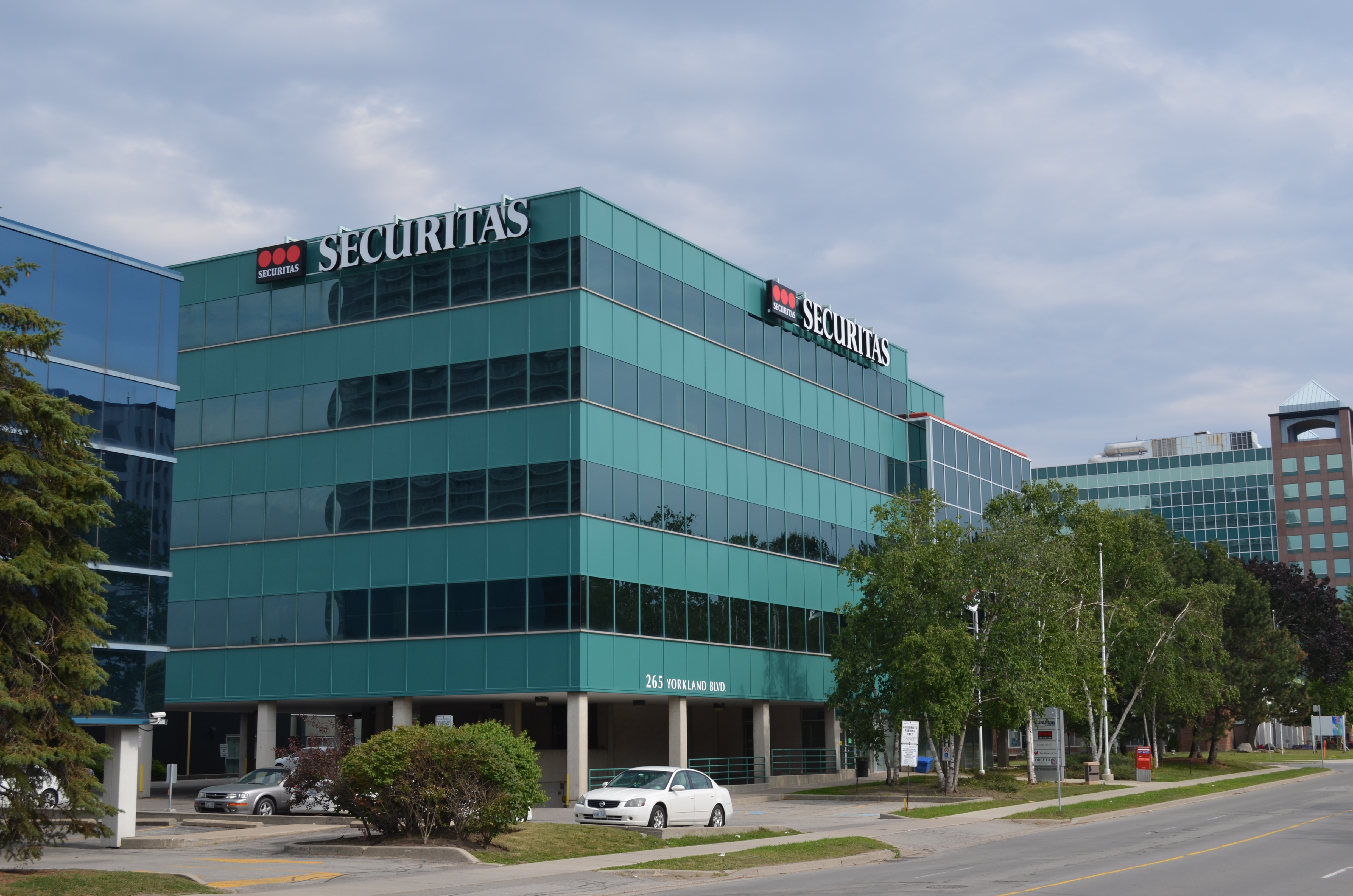 Securitas Canada, Toronto Head Office - 265 Yorkland Blvd, North York